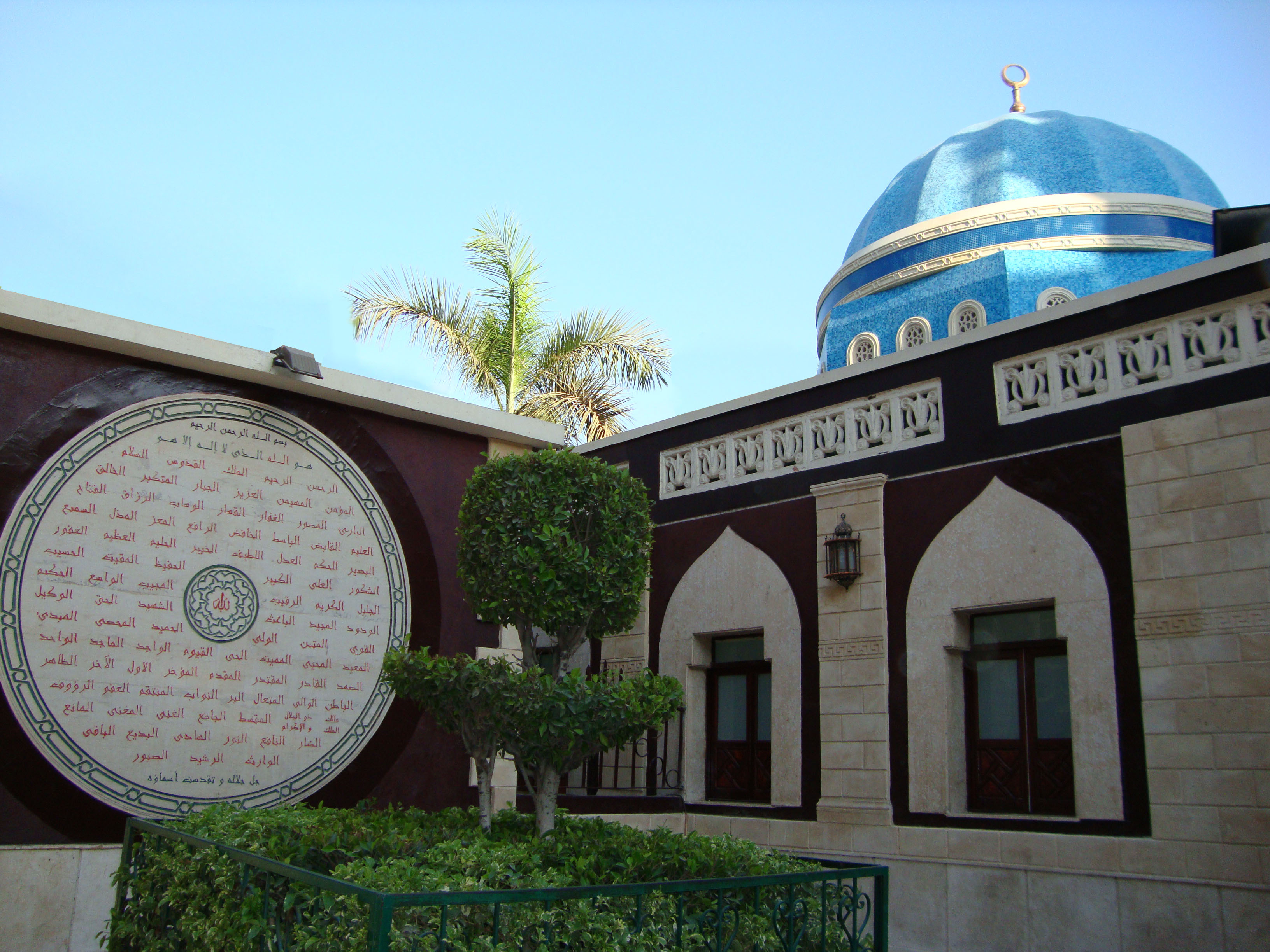 Embaba Zawiyah (Cairo)